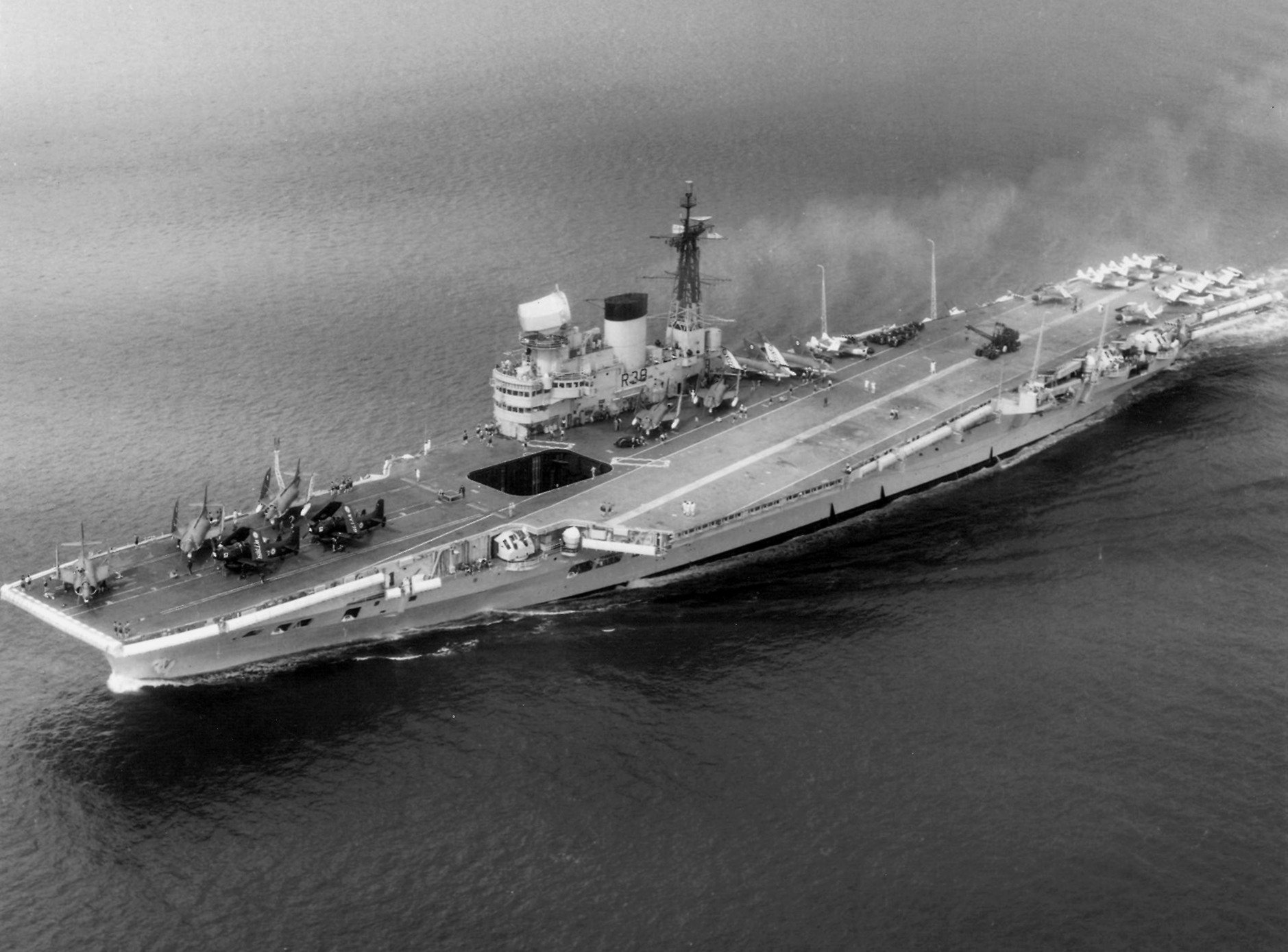 Aerial view of the Royal Navy aircraft carrier HMS Victorious (R38), taken circa 1958-1960, when the Royal Navy operated the Douglas Skyraider AEW.1.